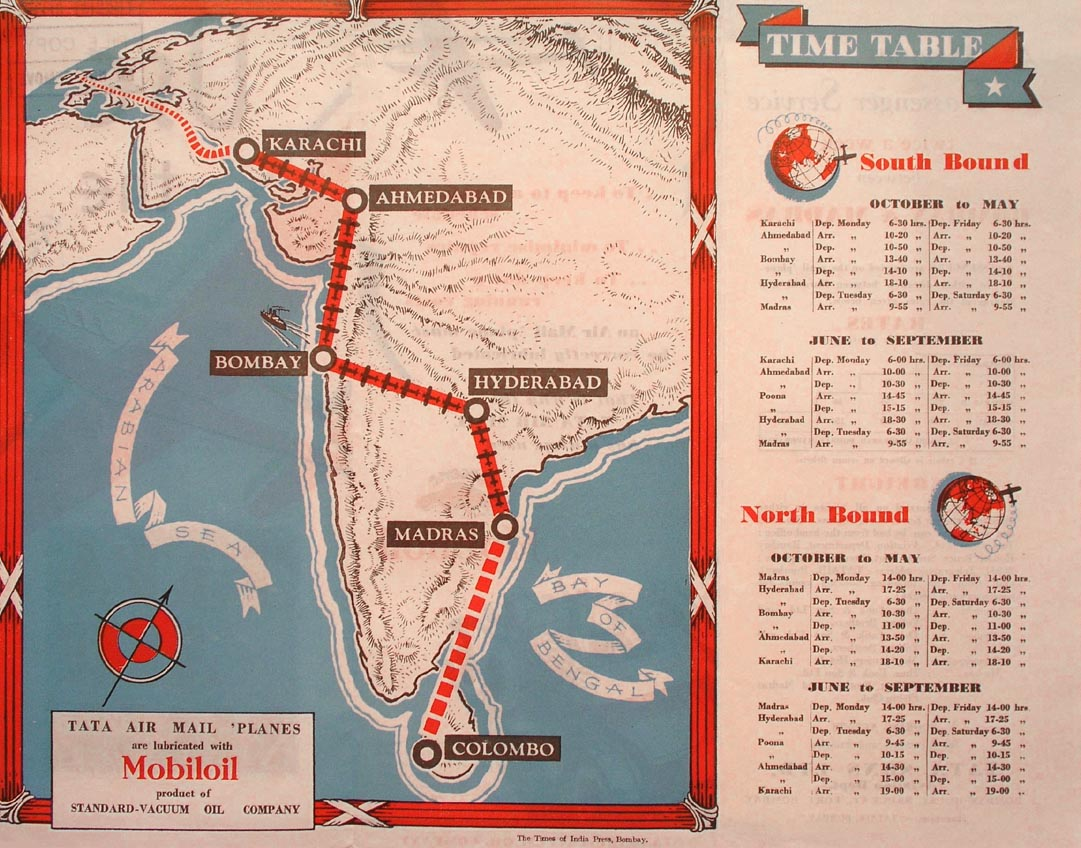 Tata Sons' Airline Timetable Image, Summer 1935 (interior)